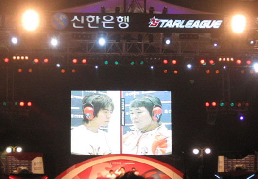 Shinhan Starleague season one final